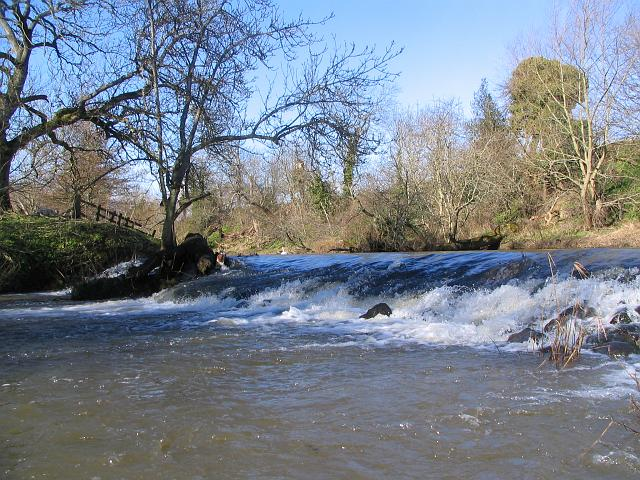 Weir above Sandy's Mill Spot the swan above! The weir was used to divert water to the mill for milling flour. The water now provides power for a micro electric scheme. I'd just come down the weir by open canoe.